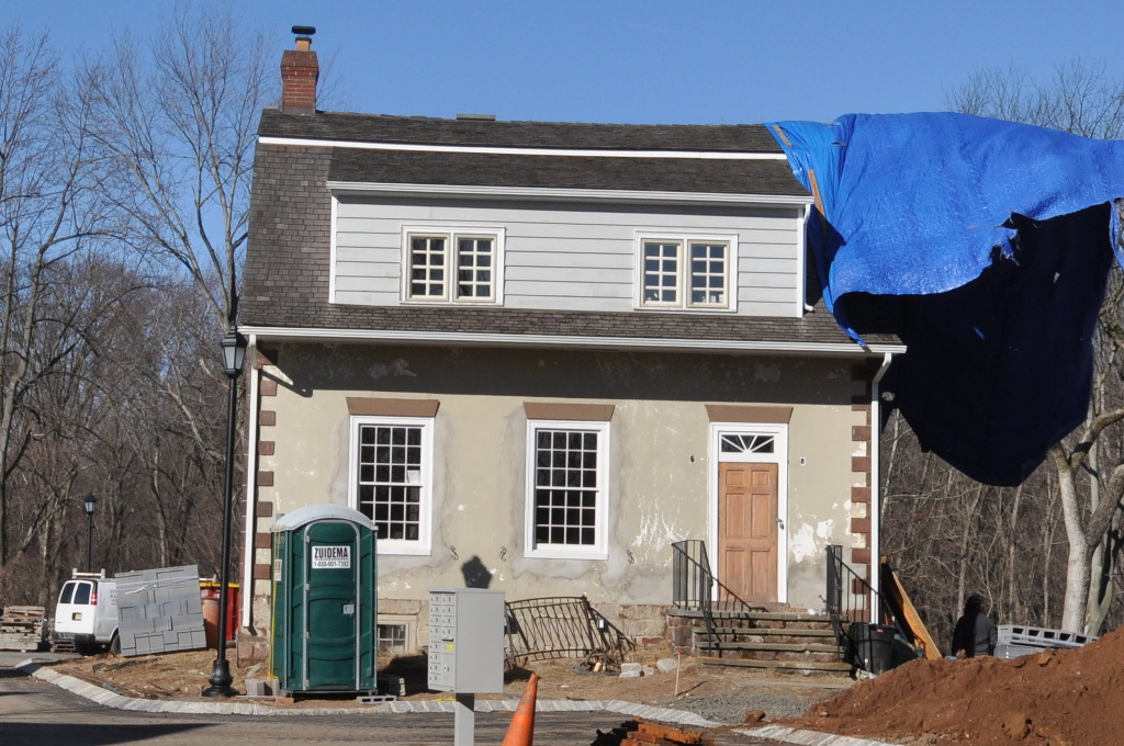 Jacob Vanderbeck, Jr., House, Fair Lawn, New Jersey.